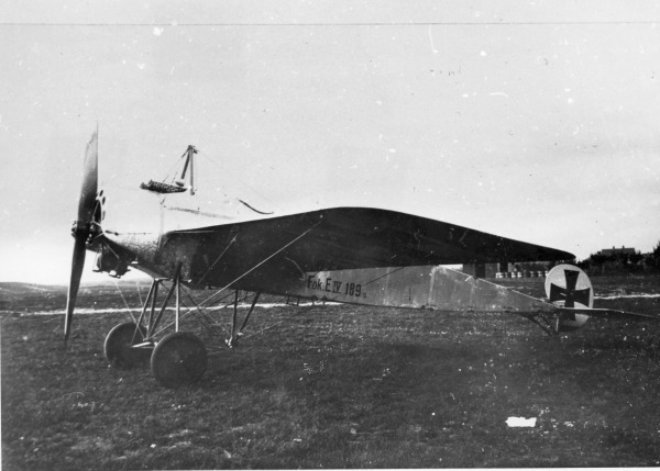 PictionID:43637932 - Catalog:16_004562 - Title:Fokker E.IV 1916 Nowarra photo - Filename:16_004562.TIF - - - - - - - Image from the Ray Wagner Collection. Ray Wagner was Archivist at the San Diego Air and Space Museum for several years and is an author of several books on aviation --- ---Please Tag these images so that the information can be permanently stored with the digital file.---Repository: San Diego Air and Space Museum